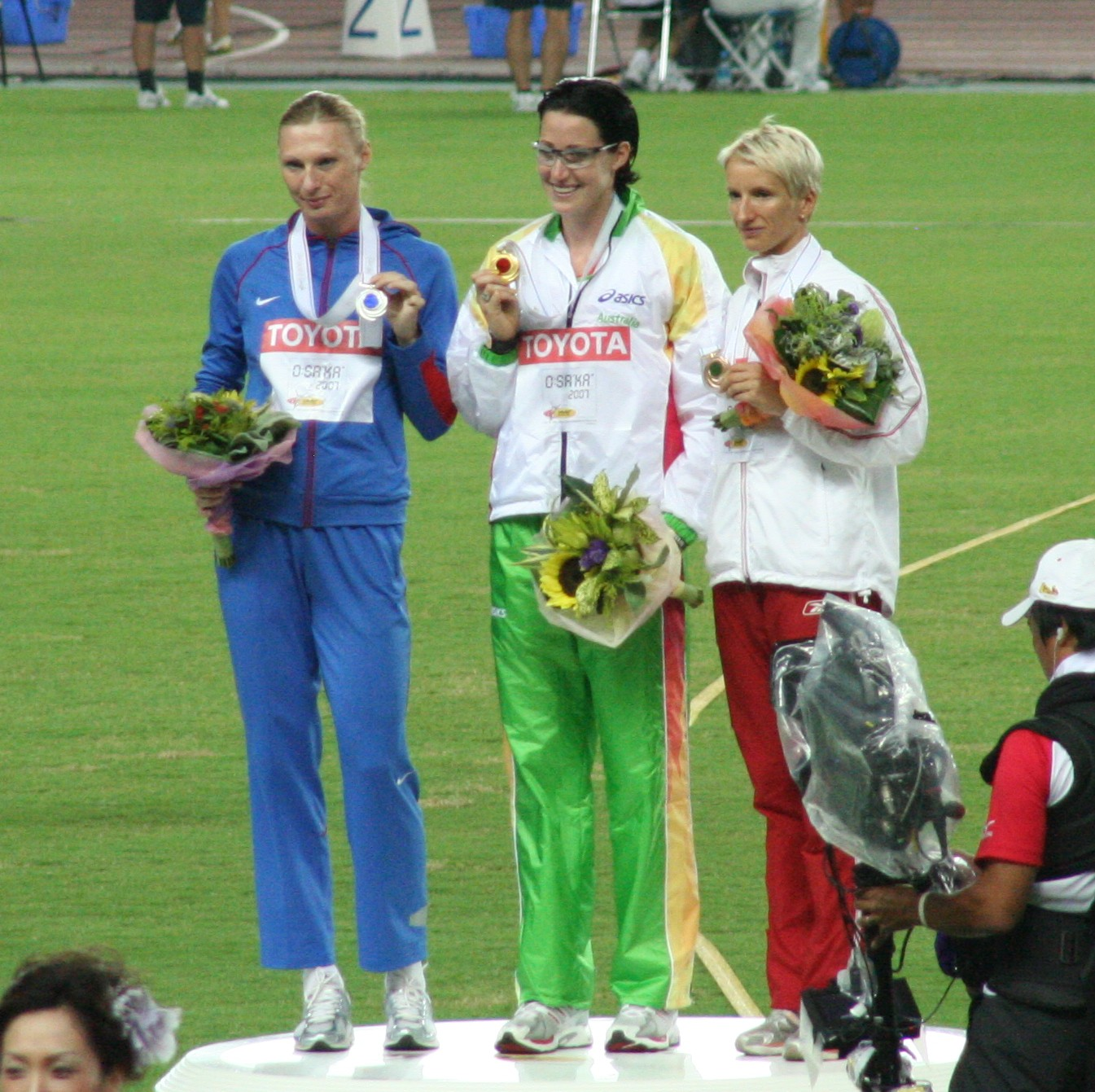 World Athletics Championships 2007 in Osaka - Victory ceremony for the women*s 400 metres hurdles: Yuliya Pechenkina, Jana Rawlinson, Anna Jesień